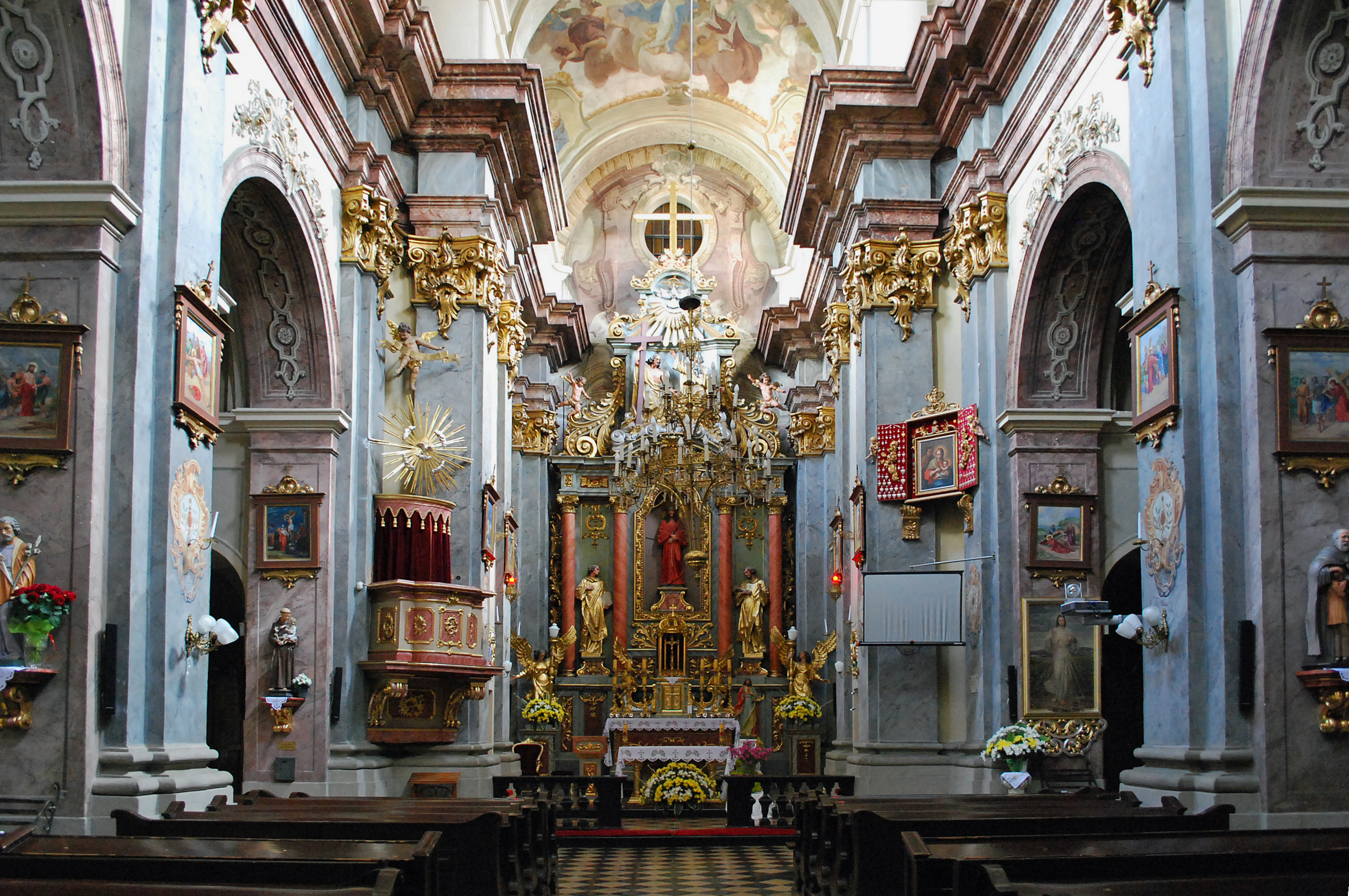 Holy Trinity Church (interior), 48 Krakowska street, Kazimierz, Krakow, Poland